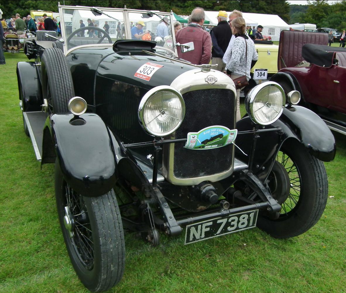 Lagonda 16/65 first registered November 1927believed to be the only remaining 16/65 2.6-litre car of about 50 built between 1925 and 1928This engine though original was bored out to 3-litres in the 1950s